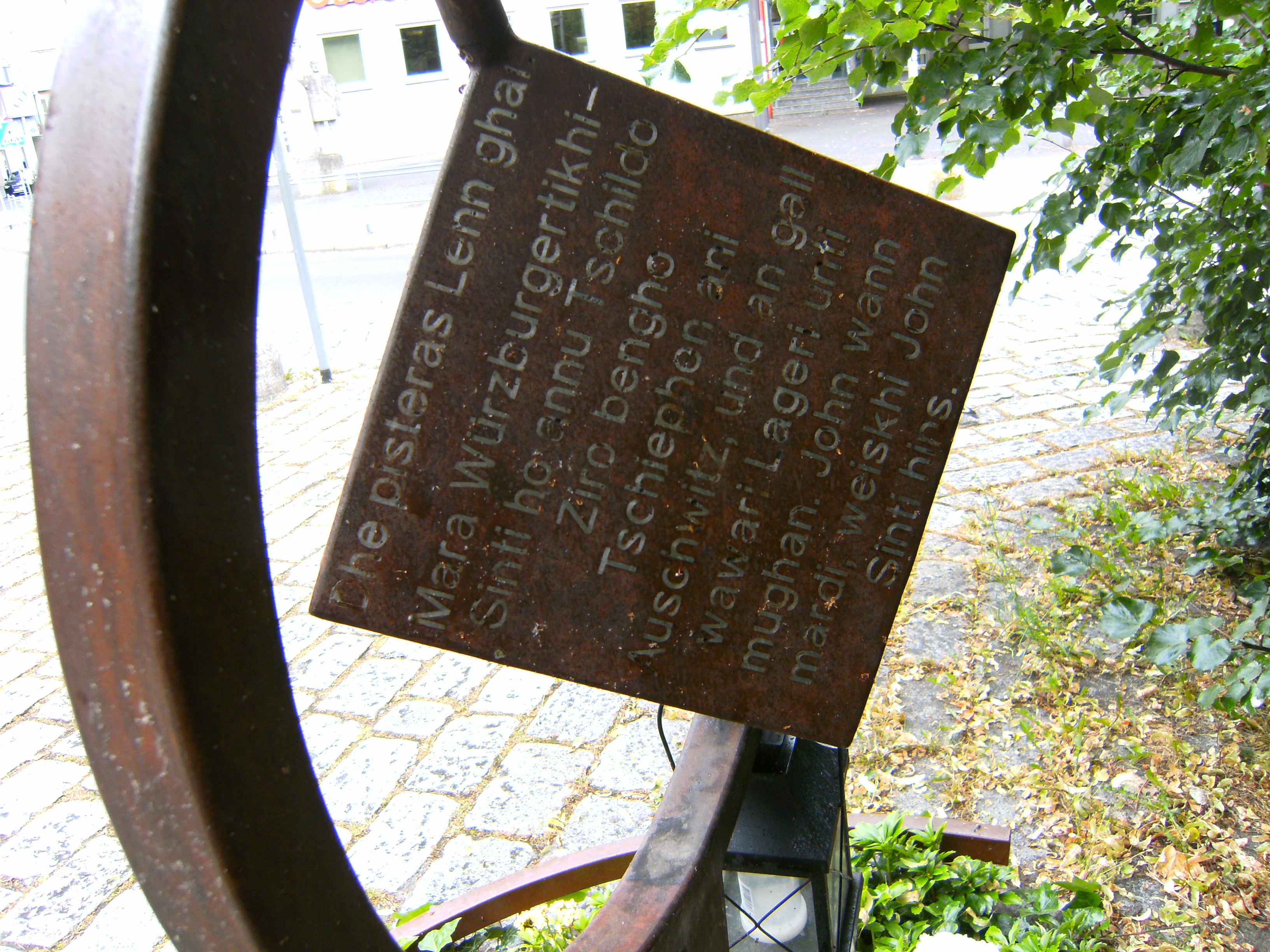 Paradeplatz in Würzburg: Memorial to the Sinti in Würzburg. Inscription in Sinto language.